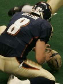 Clay Rush Colorado Crush Pepsi Center